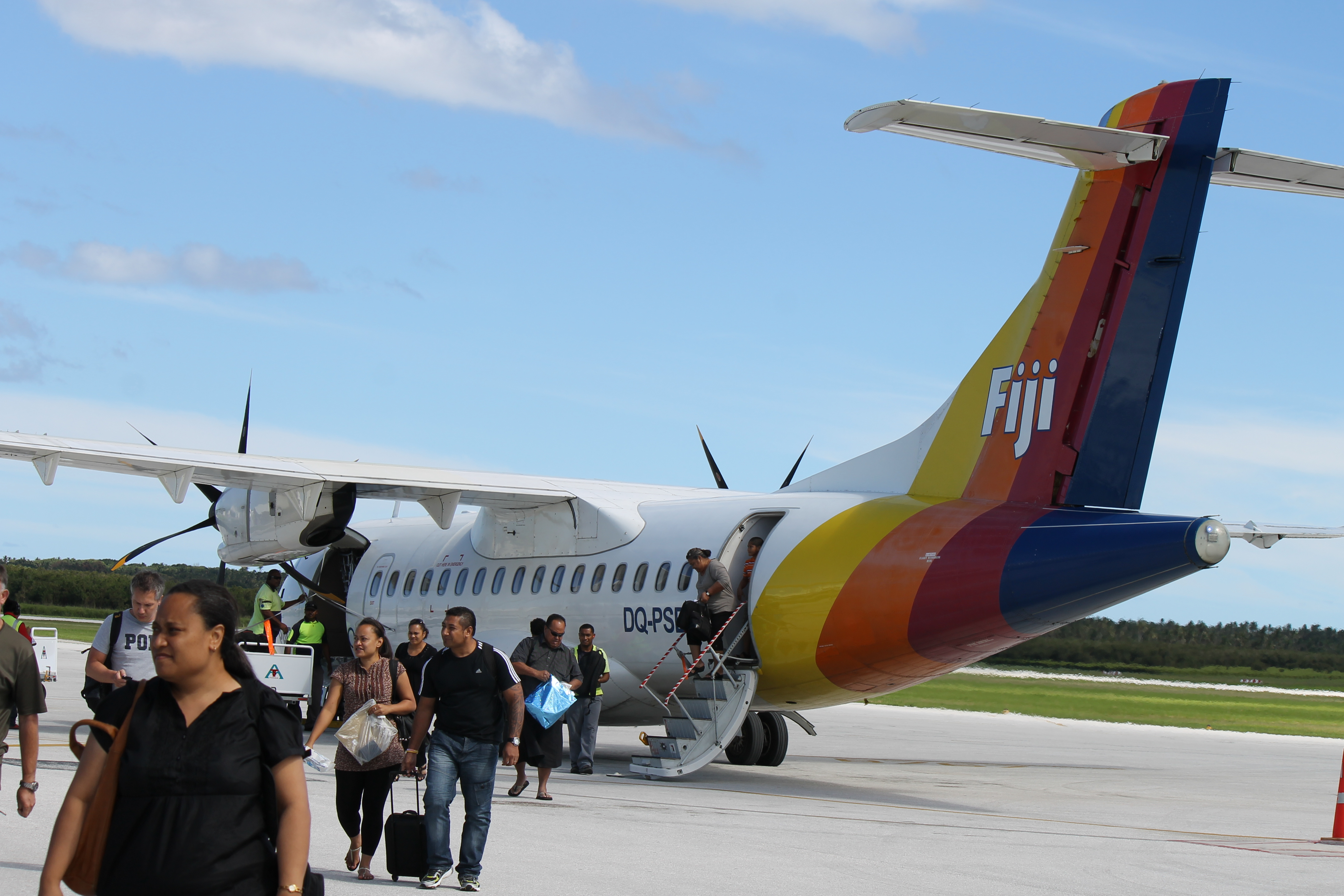 Pacific Sun ATR 42-500 (DQ-PSB) at Fuaʻamotu International Airport